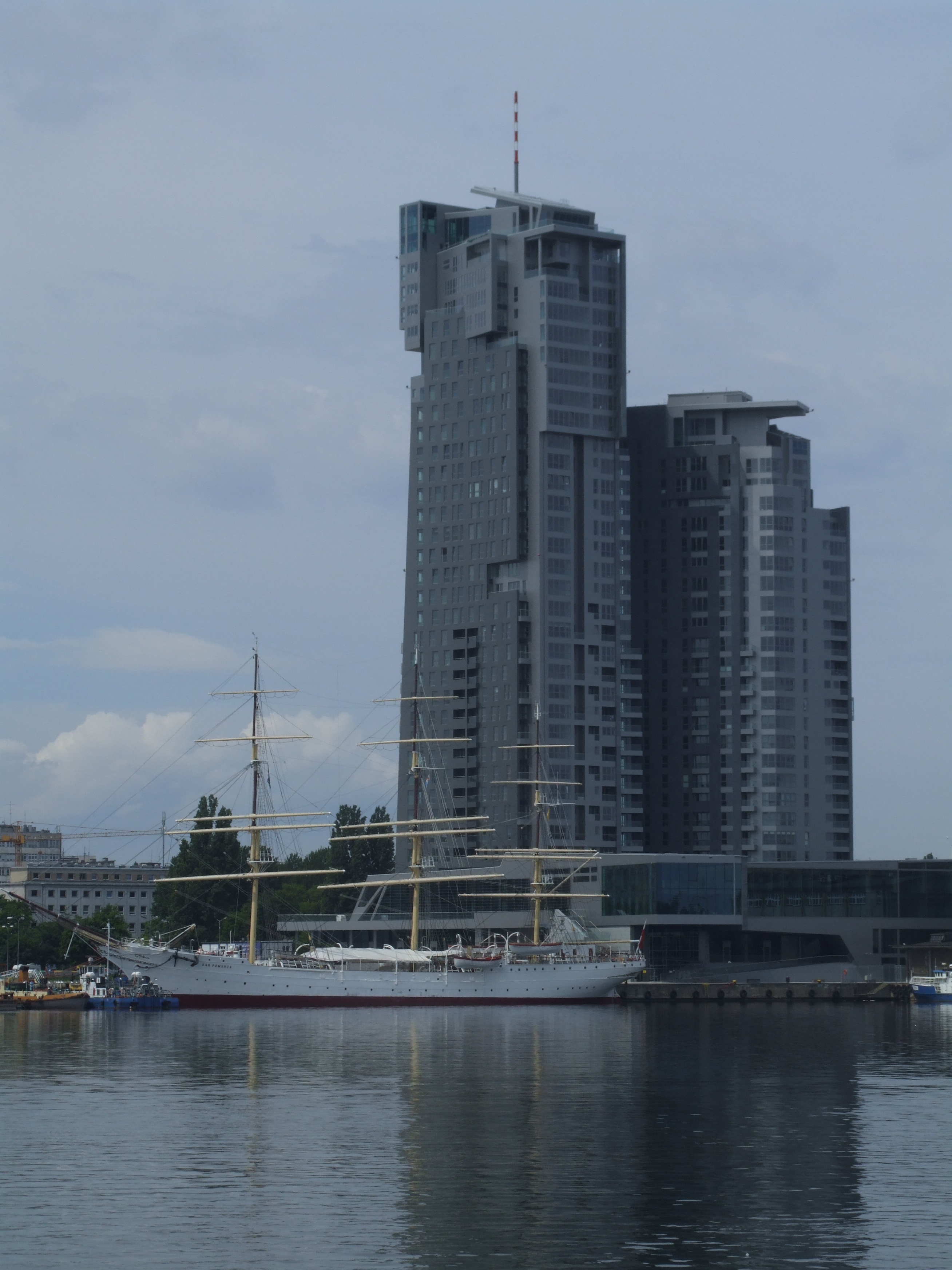 See Towers